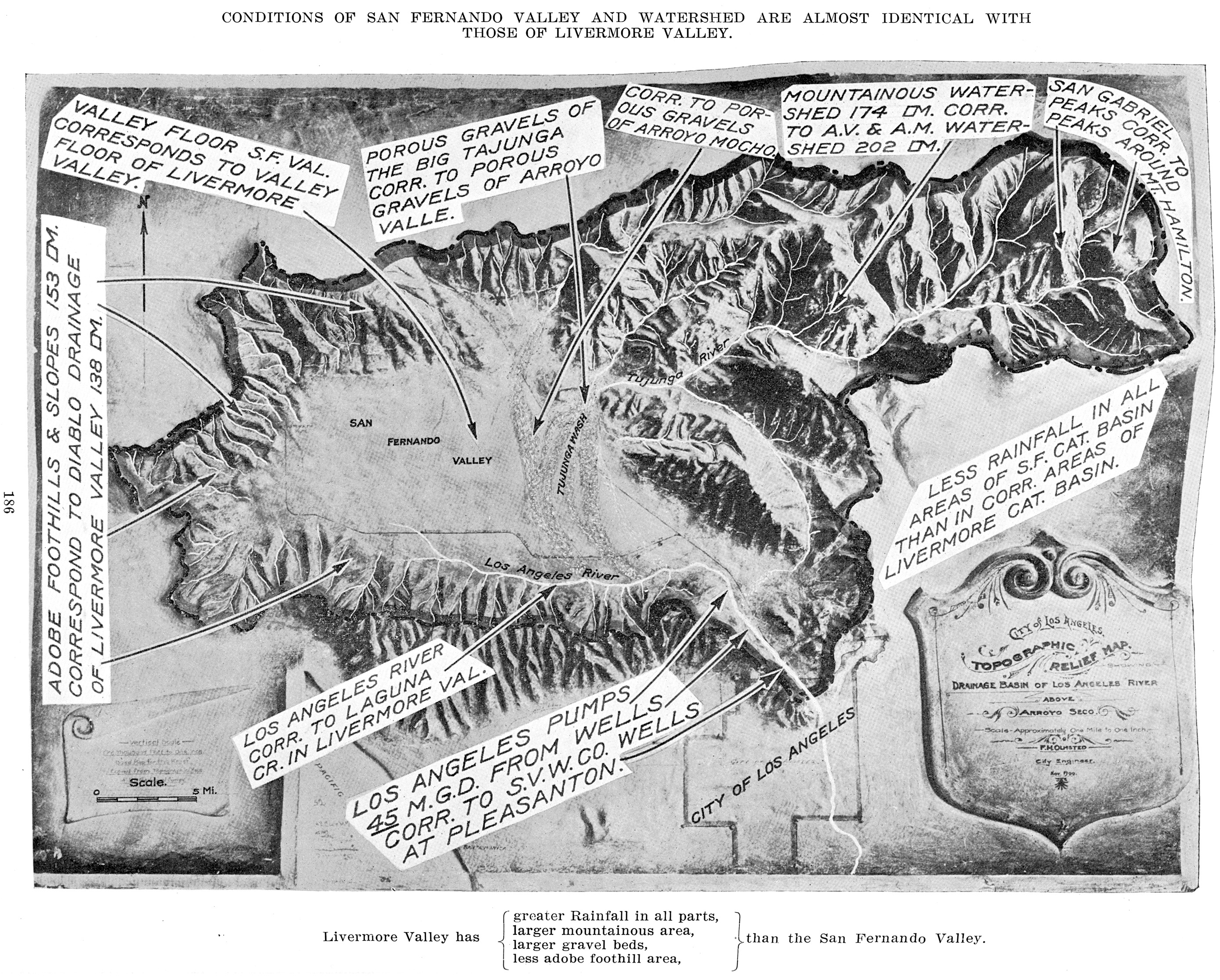 San Fernando vs Livermore Valleys map re water resources